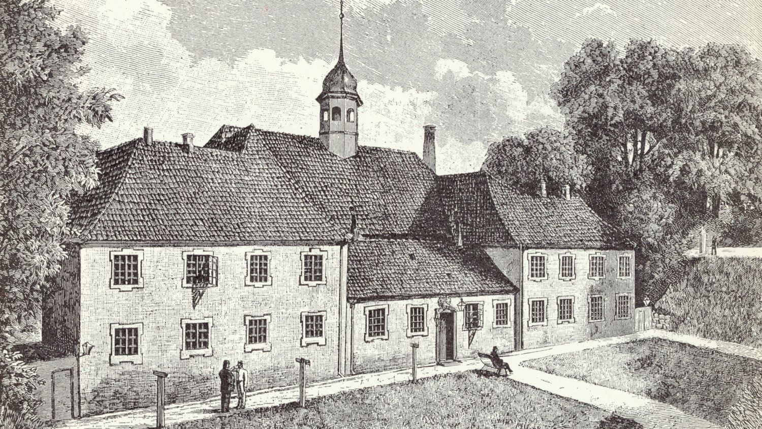 The jailhouse at Kastellet in Copenhagen, Denmark. Woodcarving.